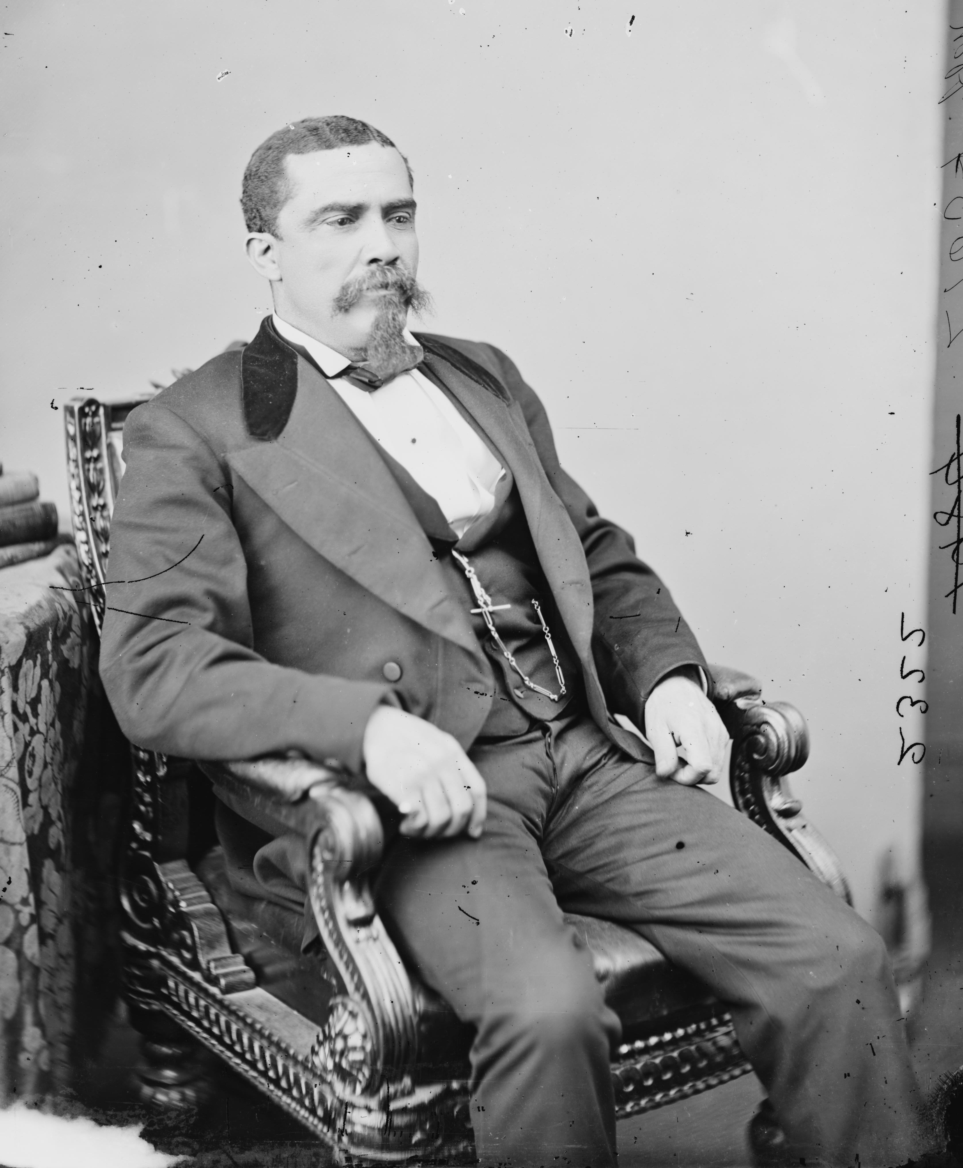 Alonzo J. Ransier. Library of Congress description: "Hon. Alonzo J. Ransier"